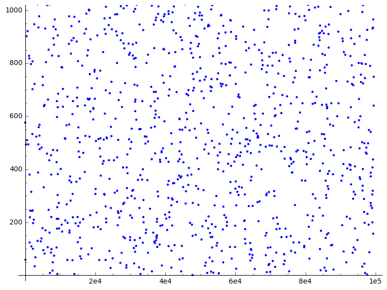 Created in SageMath thusly, ff = GF(99929) # finite field or Galois field with prime RR = ff['x'] # polynomial ring of that field P = [(0, 2011), (1, 1345), (2, 576), (3, 3245)] # (0, secret) rest random g = RR.lagrange_polynomial(P) plot(g) Demonstrates how over a finite field a polynomial curve becomes "broken up" thus one can not gain insight into the path of the curve between two points.